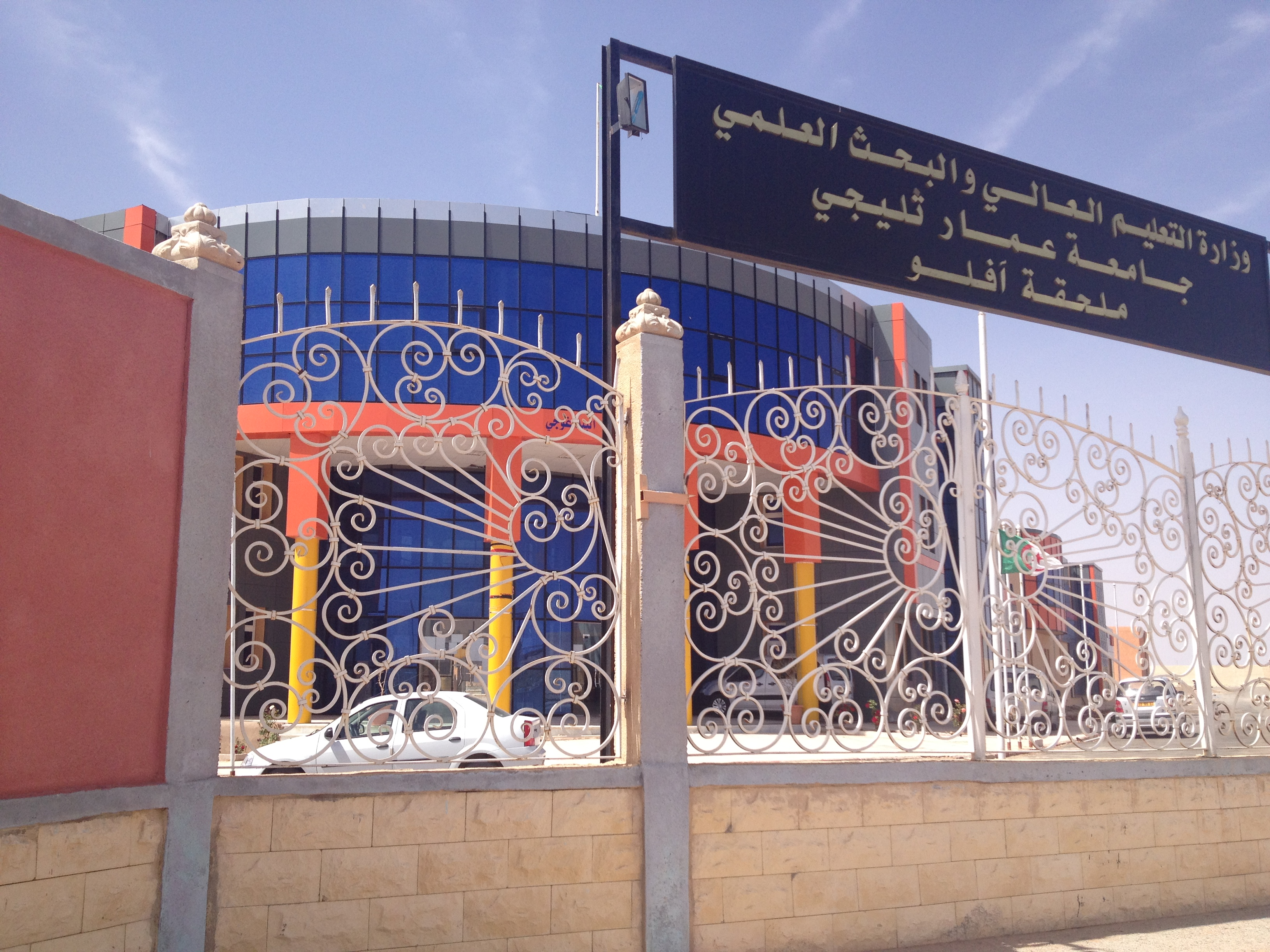 universitie